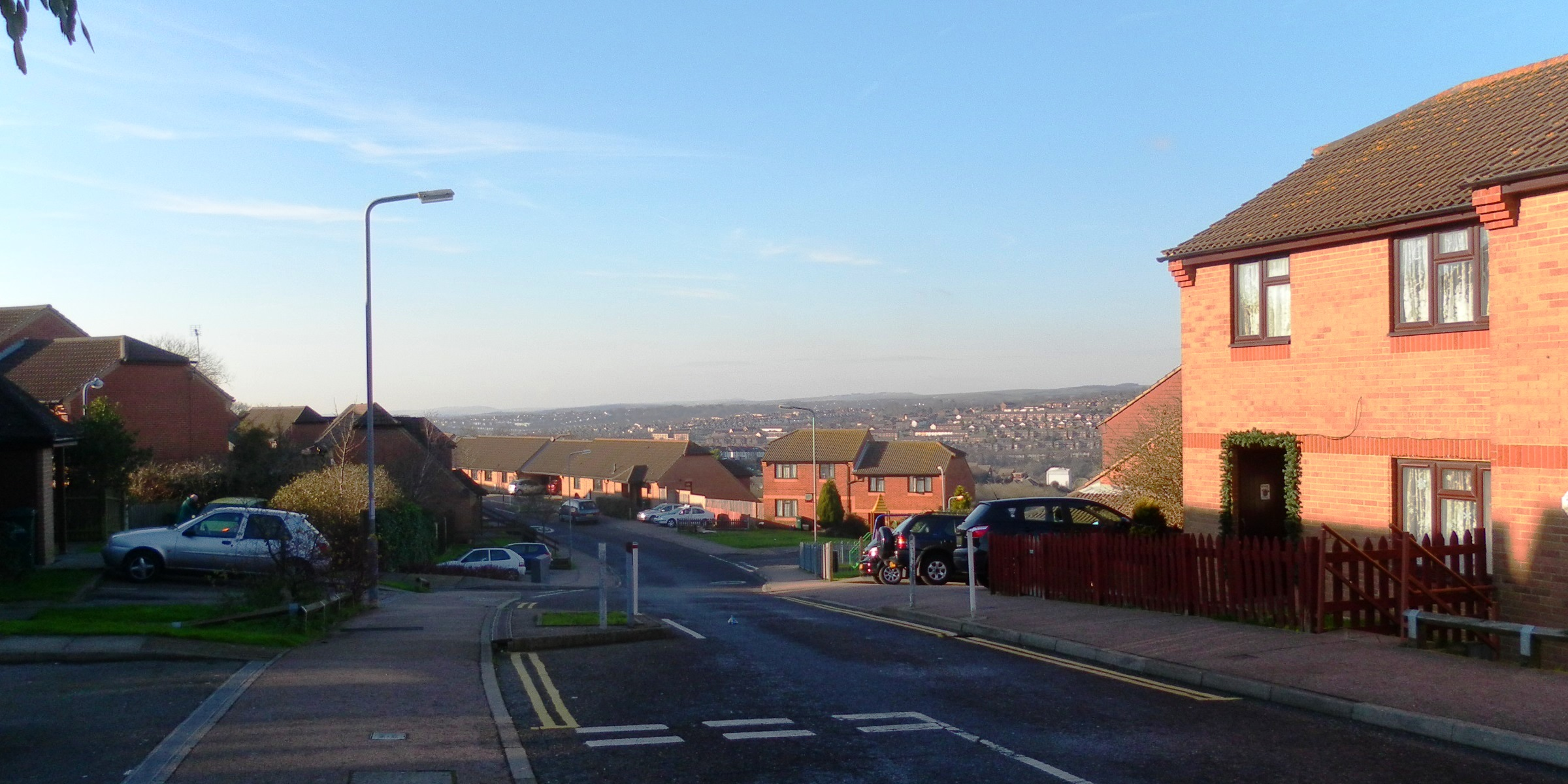 A westward view from near the end of Meadowview, the main street in the 1980s part of the Bear Road area of Brighton that is also known as Meadowview. The terminus for Meadowview-bound buses is immediately behind this point. The estate is situated at a high point; distant views of the Hollingdean and Preston Park areas of Brighton are visible.